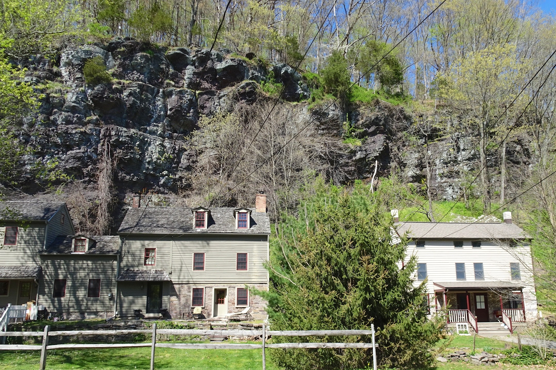 2202 (right, contributing #4) and 2204 (left, contributing #3) Daniel Bray Highway (NJ Route 29) in Raven Rock, New Jersey. Contributing properties in the Raven Rock Historic District. Raven Rock cliffs seen in the background.